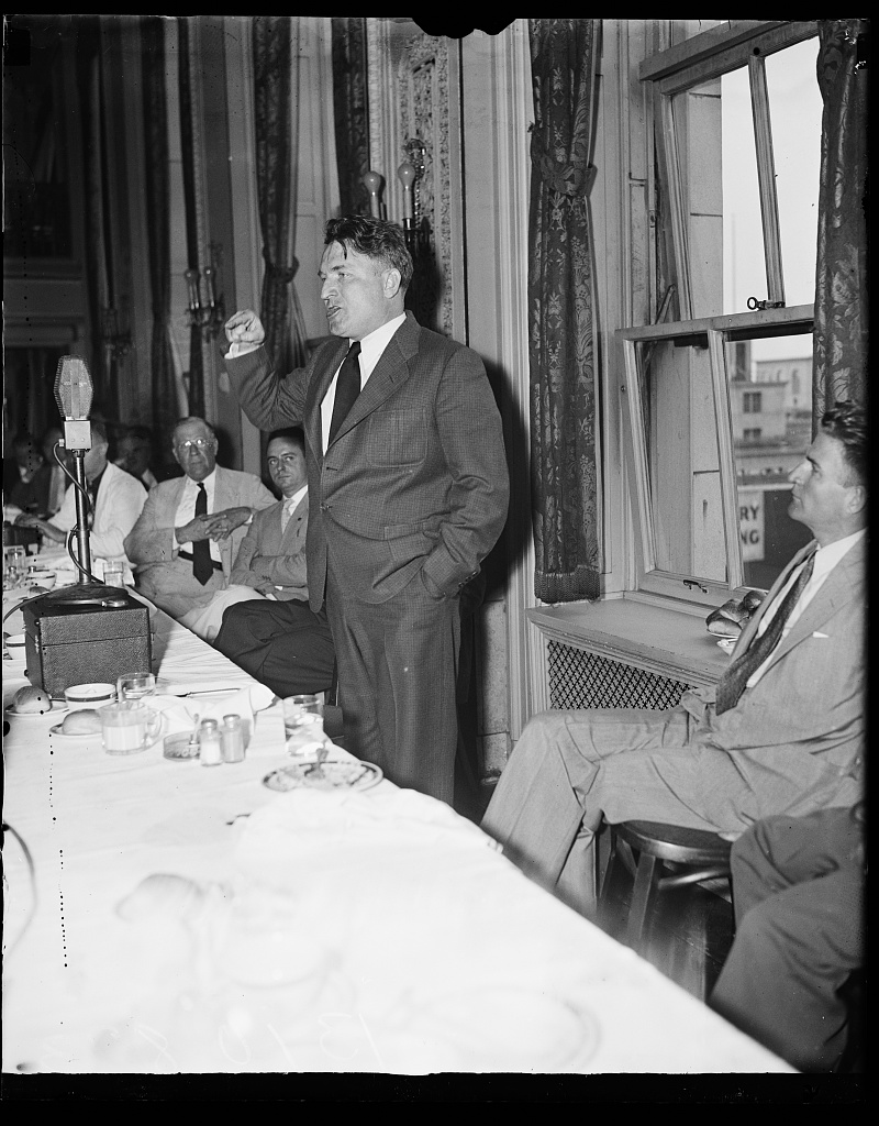 Gerald L. K. Smith speaks to press, attacking New Deal